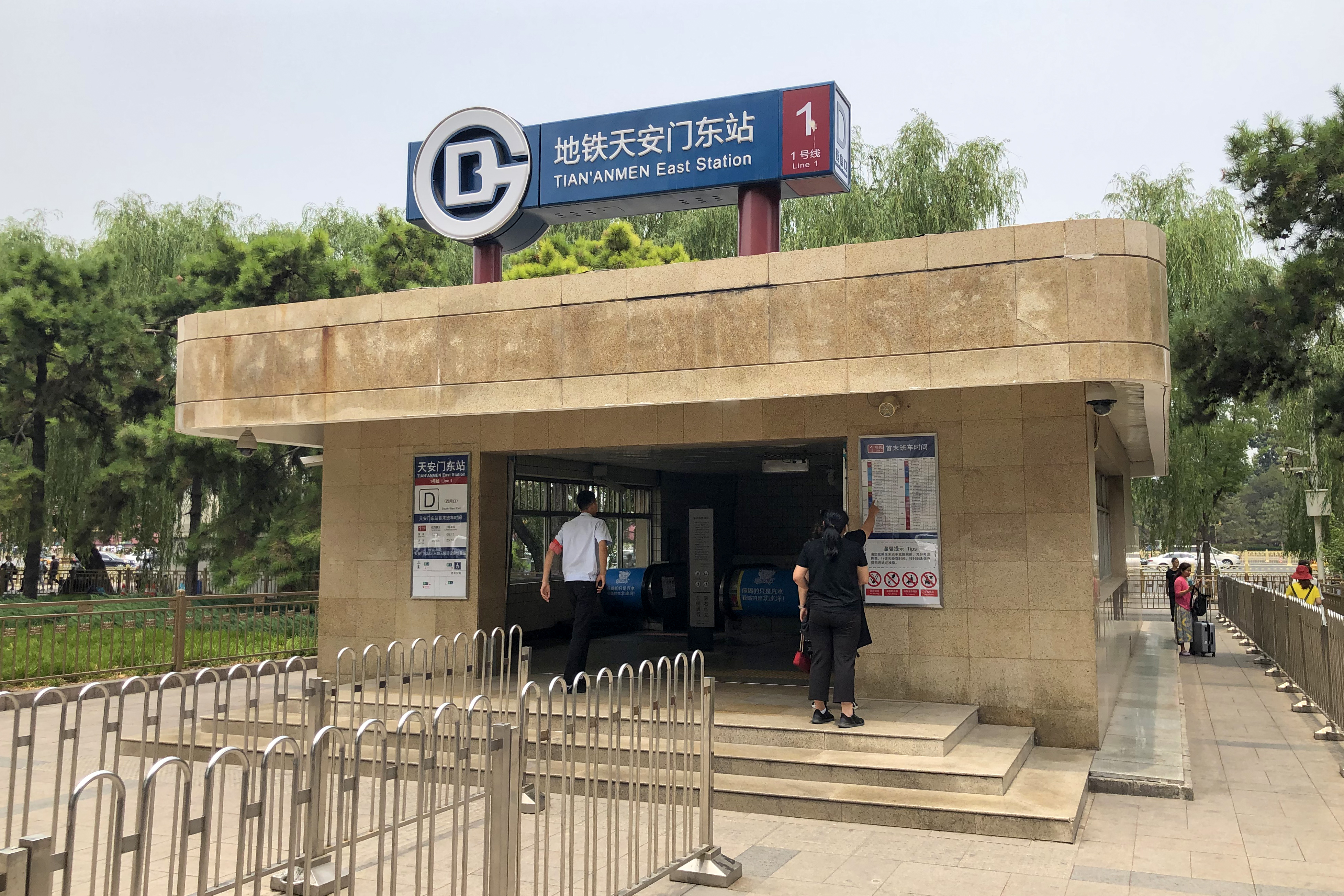 Using new sign.